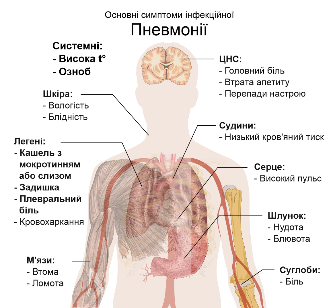 Main symptoms of infectious pneumonia. Sources are found in main article: Wikipedia:Pneumonia#Signs_and_symptoms. To discuss image, please see Template_talk:Human body diagrams.